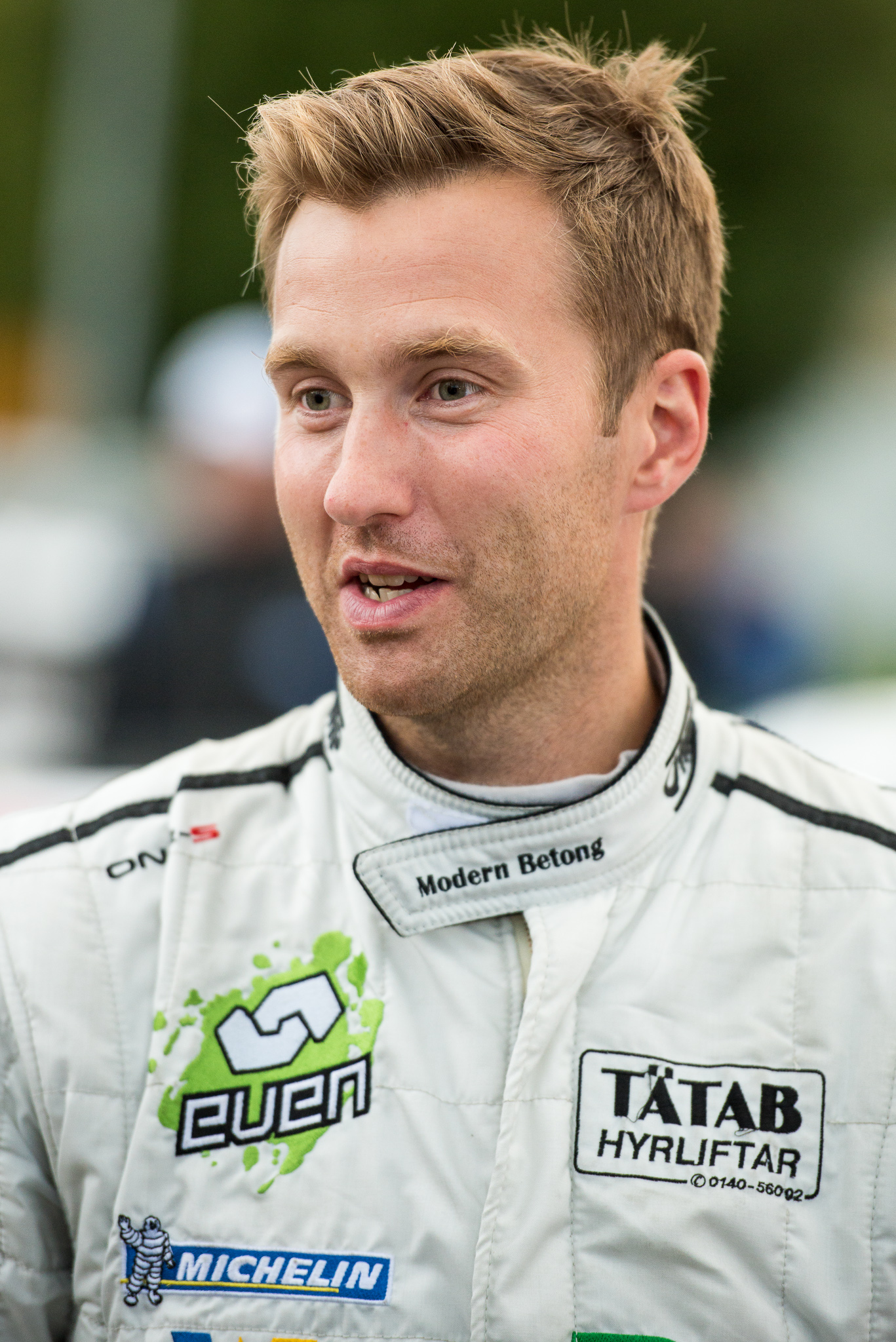 ADAC Rallye Deutschland 2014,Emil Axelsson,FIA,FIA World Rally Championship,Motorsport,Rally,Rallye,WRC 2